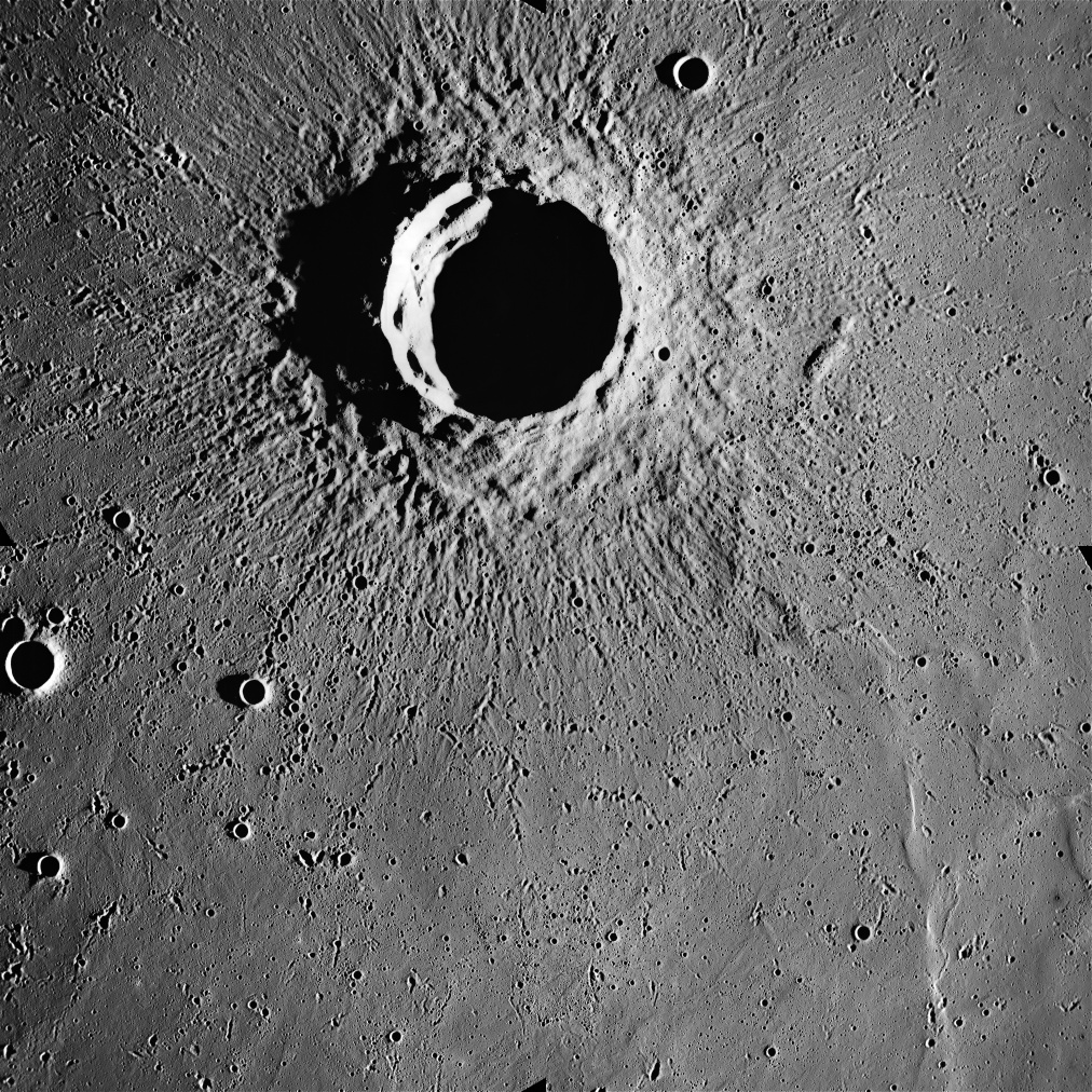 The Mapping Camera image of Timocharis Crater. The correct image designation is AS15-M-0598.